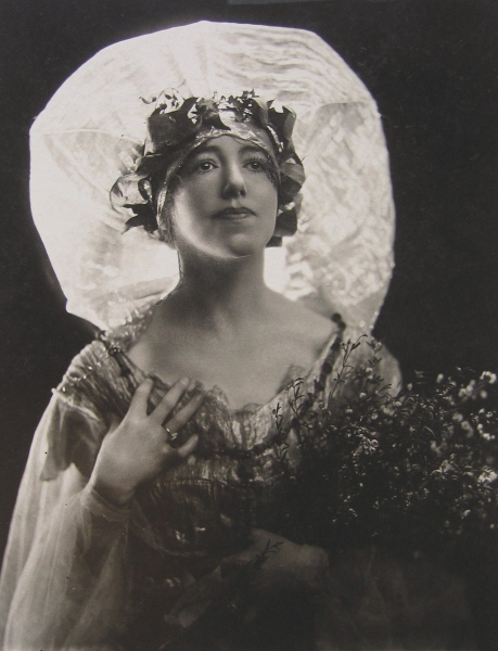 Photograph of artist Hilda Rix Nicholas, c. 1920, dressed as "the spirit of the bush". Taken in Mosman, Australia